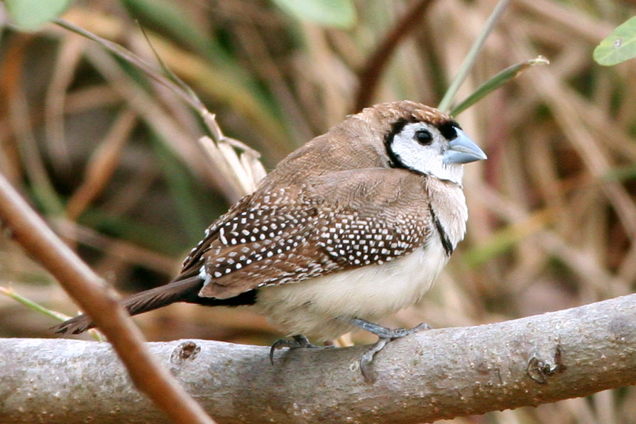 Double-barred Finch, Taeniopygia bichenovii